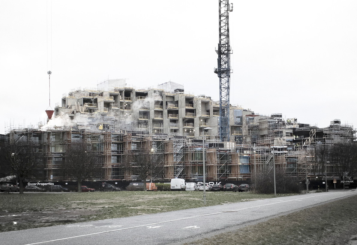 FOTOGRAFIGärdet. Bygget av 79&Park vid Sandhamnsgatan, Gärdet. -FOTOGRAF: Ek, Mattias.BILDNUMMER:Stadsmuseet i Stockholm